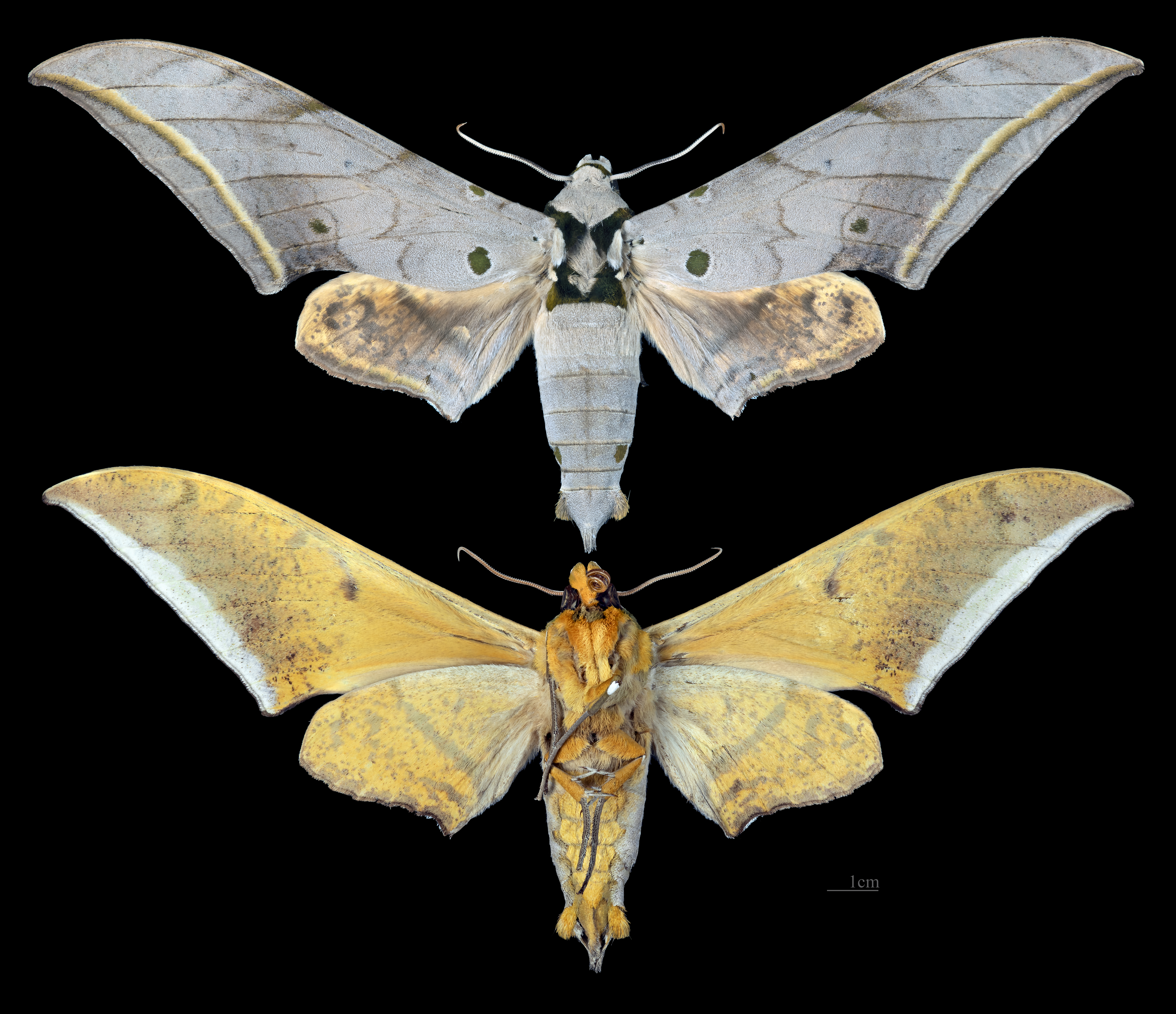 Ambulyx montana - Two views of same specimen Collection of the Mathematician Laurent Schwartz